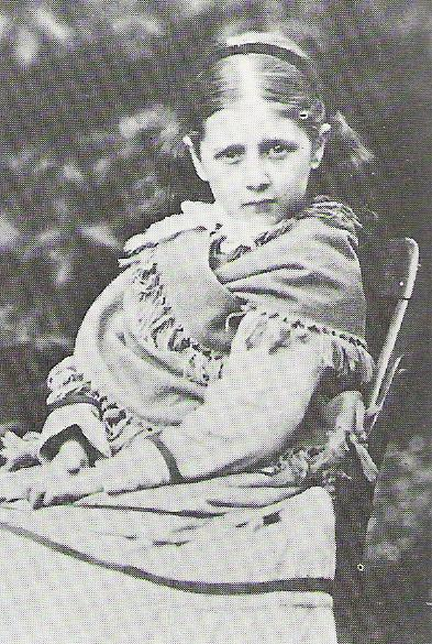 Beatrix Potter about 1874